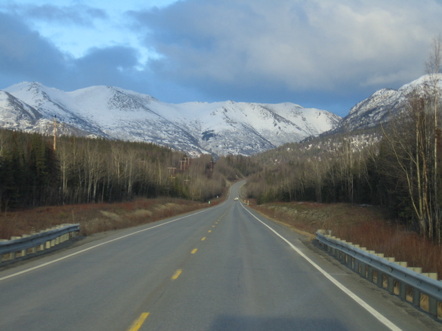 Sterling Highway, Alaska photo from flickr by Steve Lyon. The Sterling Highway, as viewed when traveling westwards to Soldotna/Kenai from Cooper Landing as one leaves the Kenai Mountains.